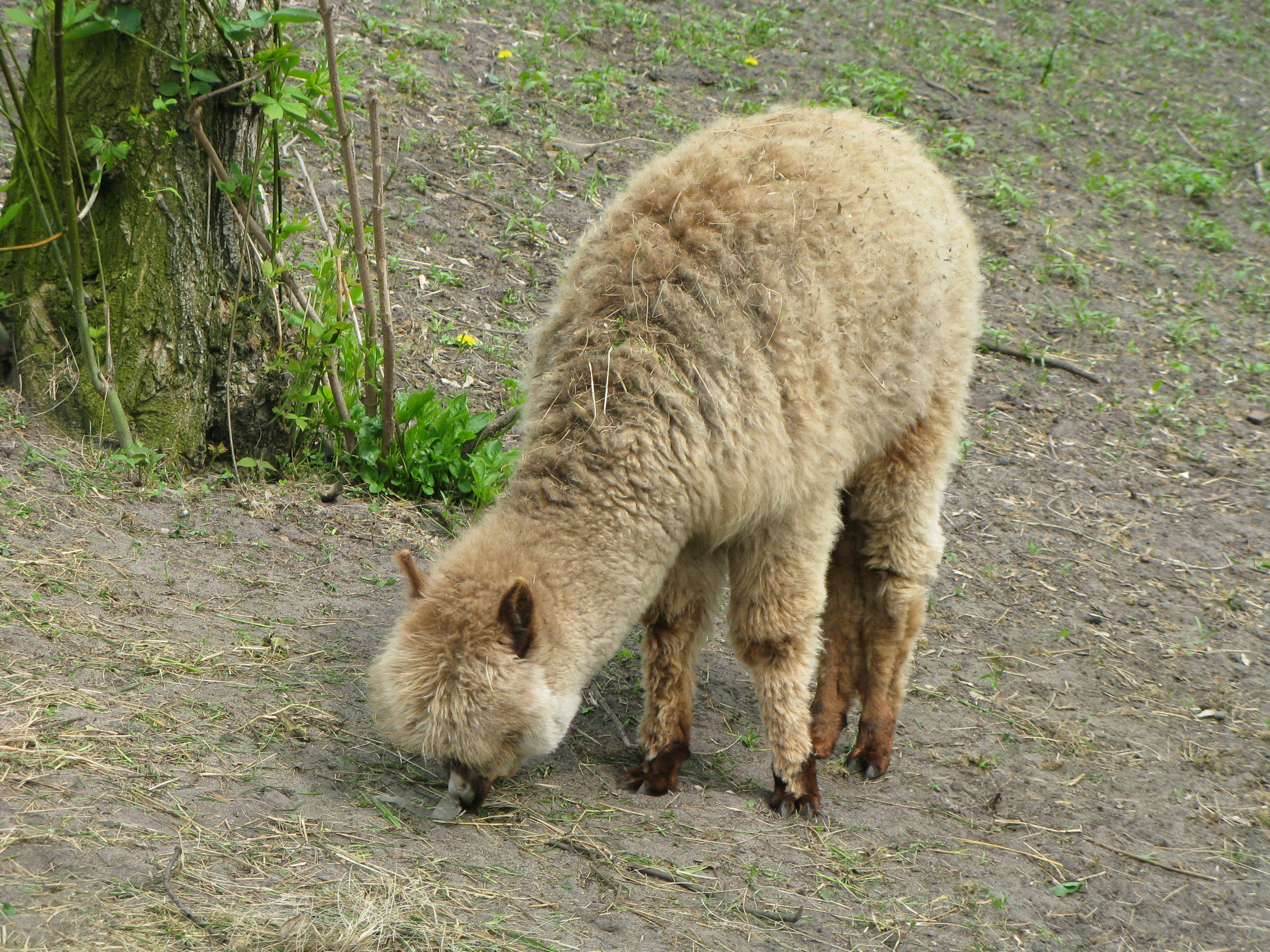 Young Vicugna pacos in Zoobotanical Garden in Toruń